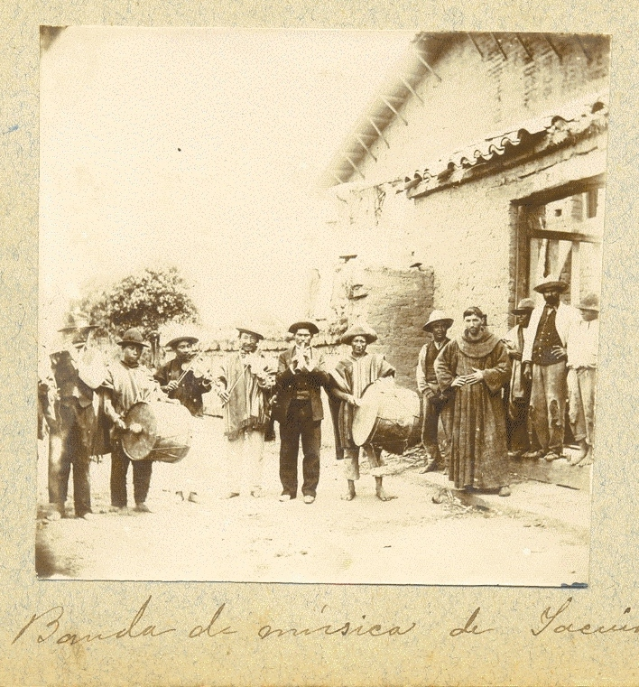 Banda de Jacuiba